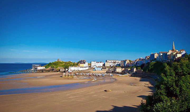 Tenby - Wales - Harbour